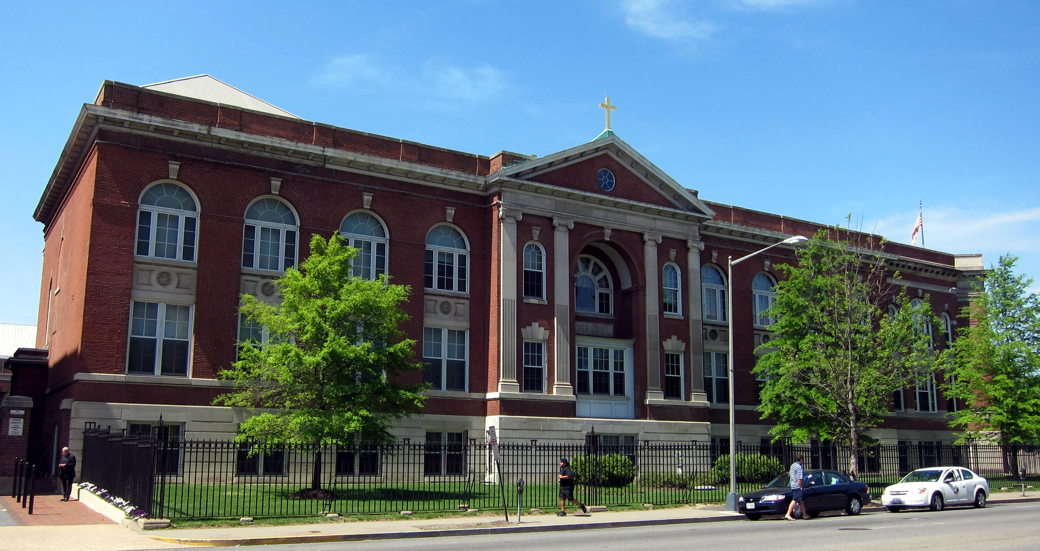 Gonzaga College High School, located at 19 I Street, N.W., in the NoMa neighborhood of Washington, D.C.